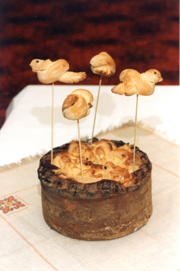 A korovai — a Ukrainian traditional bread-cake used in wedding ceremonies. This bread-cake was made by my mother for my wedding.